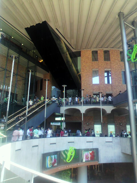 This picture was taken on June 6, 2011 at Kobe International House. On the same day, the live event performed by a Japanese voice actress, Aki Toyosaki's first concert tour "love your live" was held in Kokusai Hall. This picture was adjusted levels and tone with Photoshop CS6.